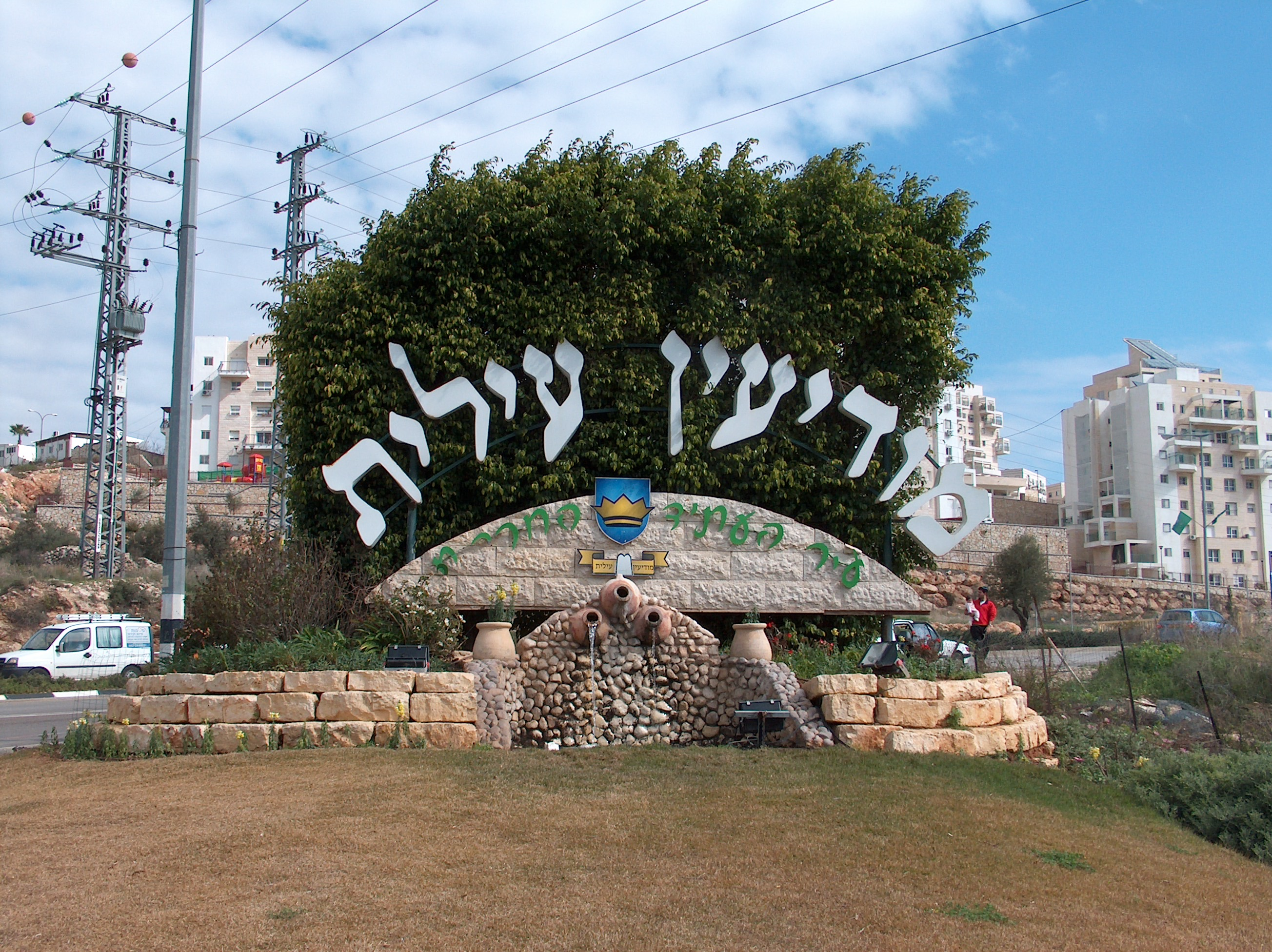 Welcome sign outside the entrance to Modi'in Illit, with homes of Kiryat Sefer in the background. The words "Modi'in Illit" are written in large Hebrew letters on a background of grass. The wording on the stone section of sign reads: "Haredi City of the Future".